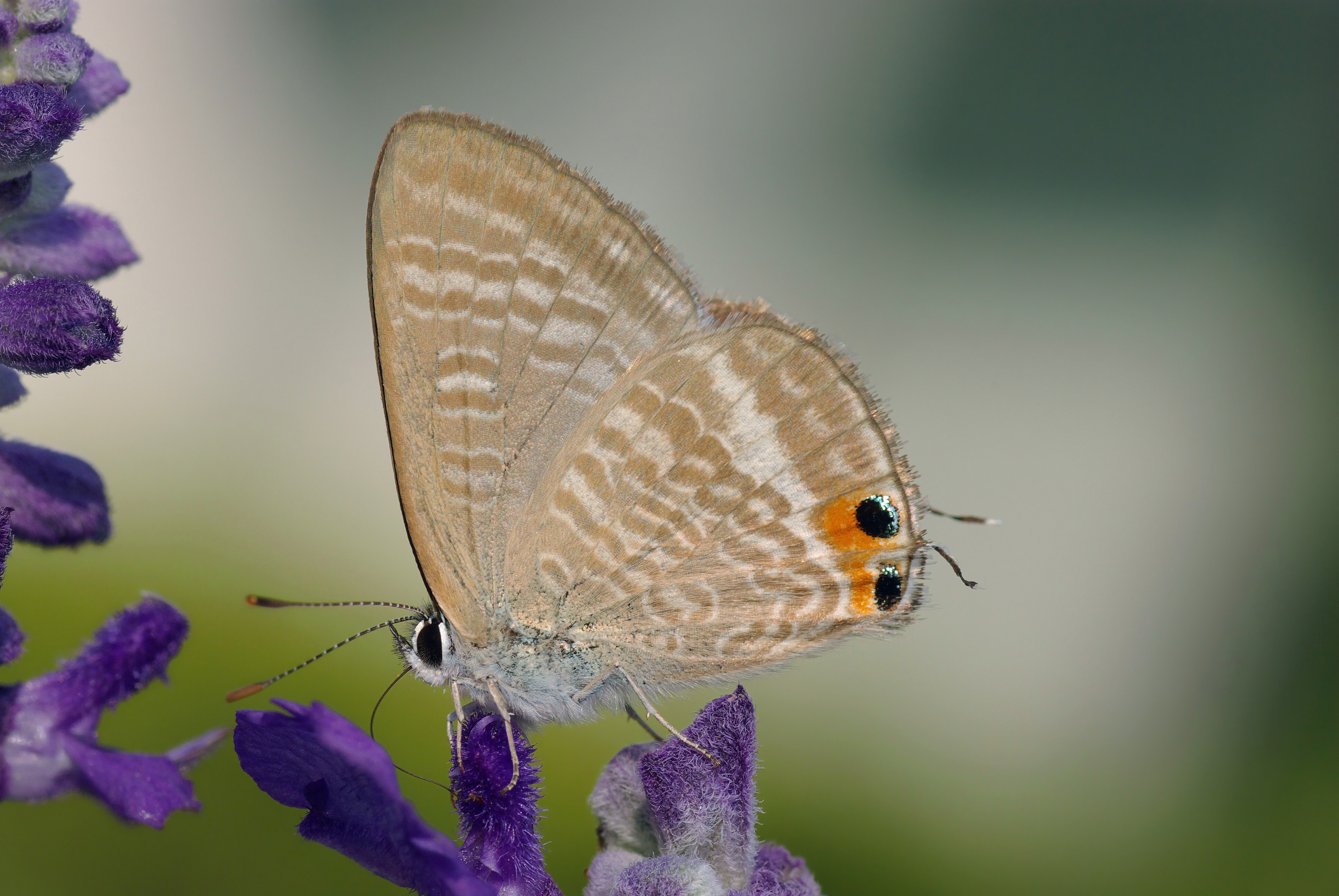 Peablue. This picture was taken at Osaka, Japan.